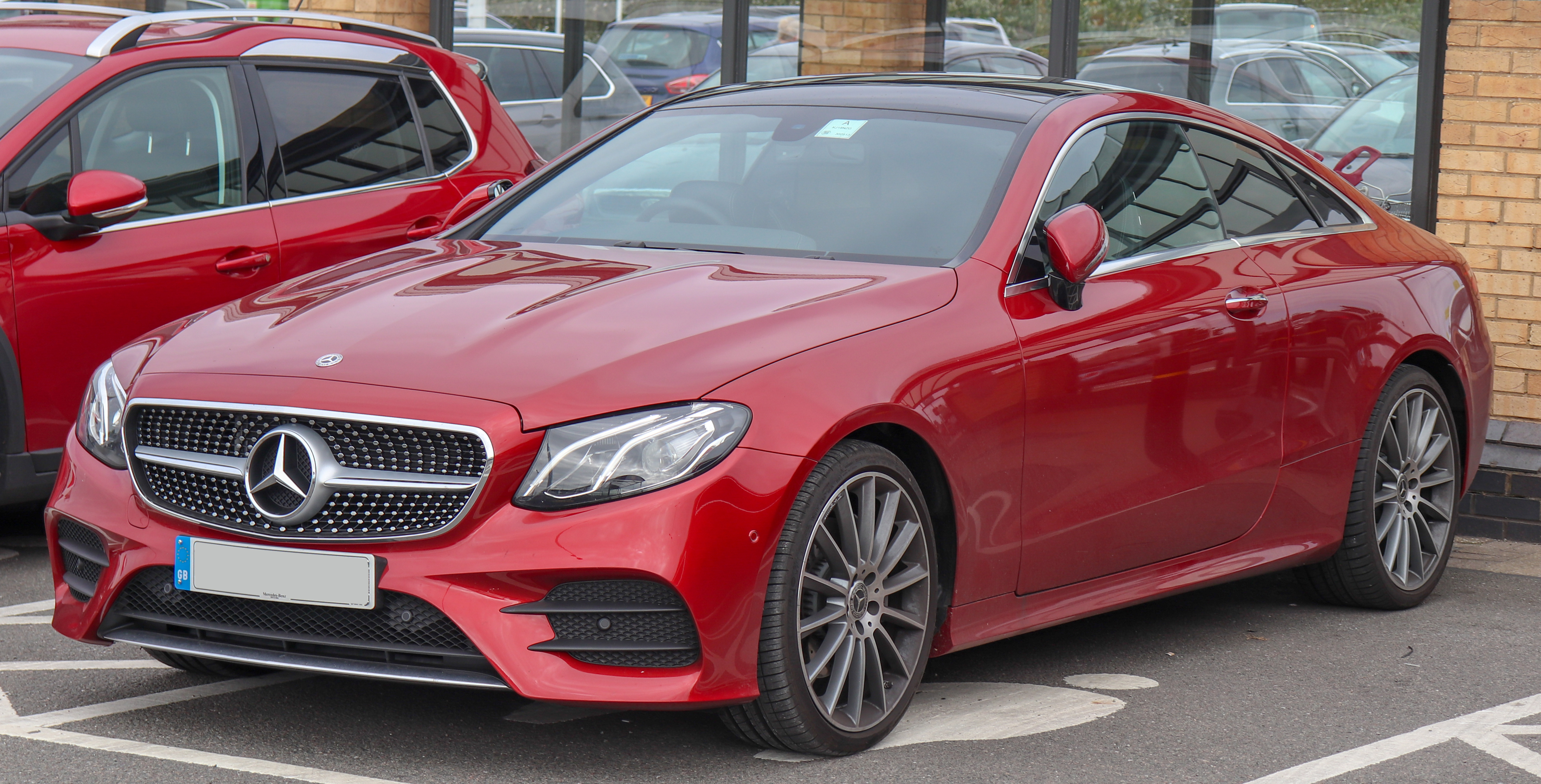 2018 Mercedes-Benz E220d AMG Line Premium 2.0 Taken in Leamington Spa